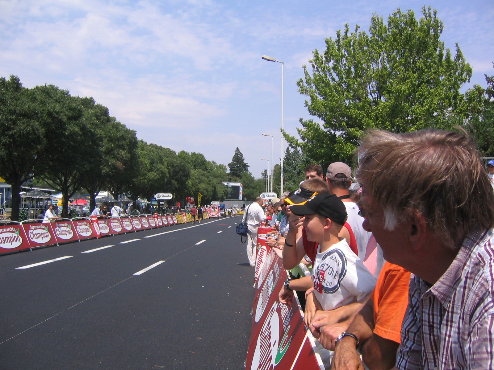 The finish area in Montpellier at the 13th stage of the Tour de France 2005.